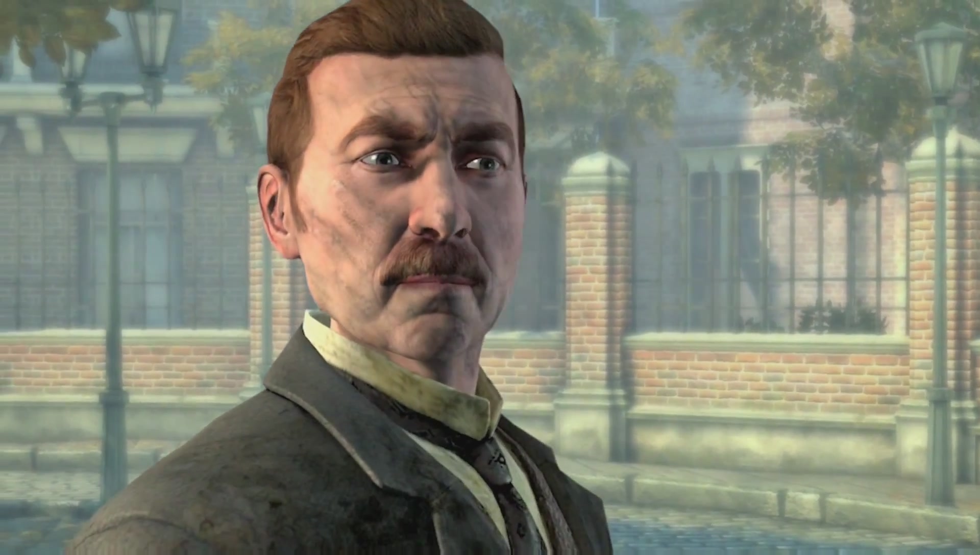 Screenshot from The Testament of Sherlock Holmes, a video game by Frogwares.